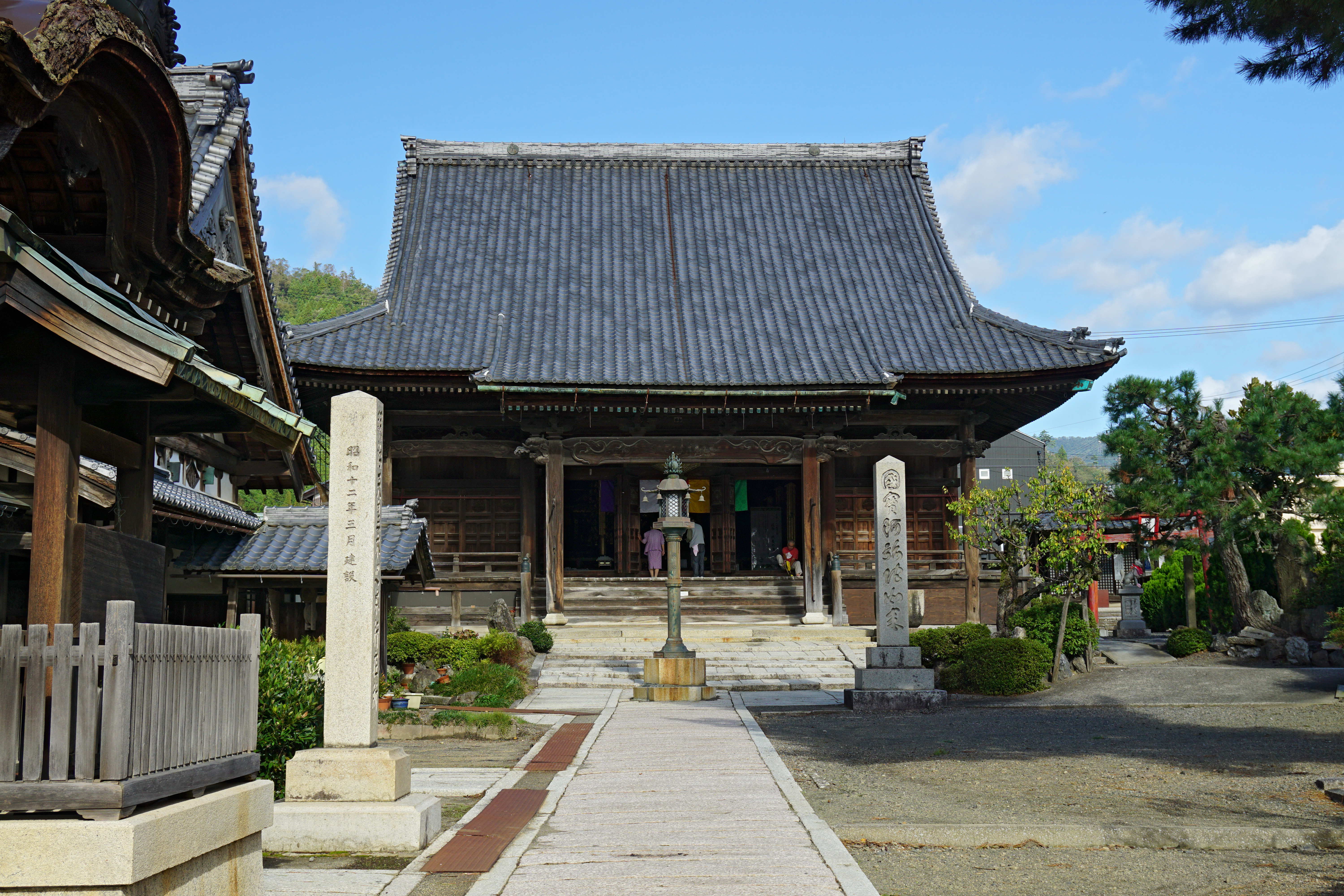 Kinomoto-Jizo-in in Nagahama, Shiga prefecture, Japan